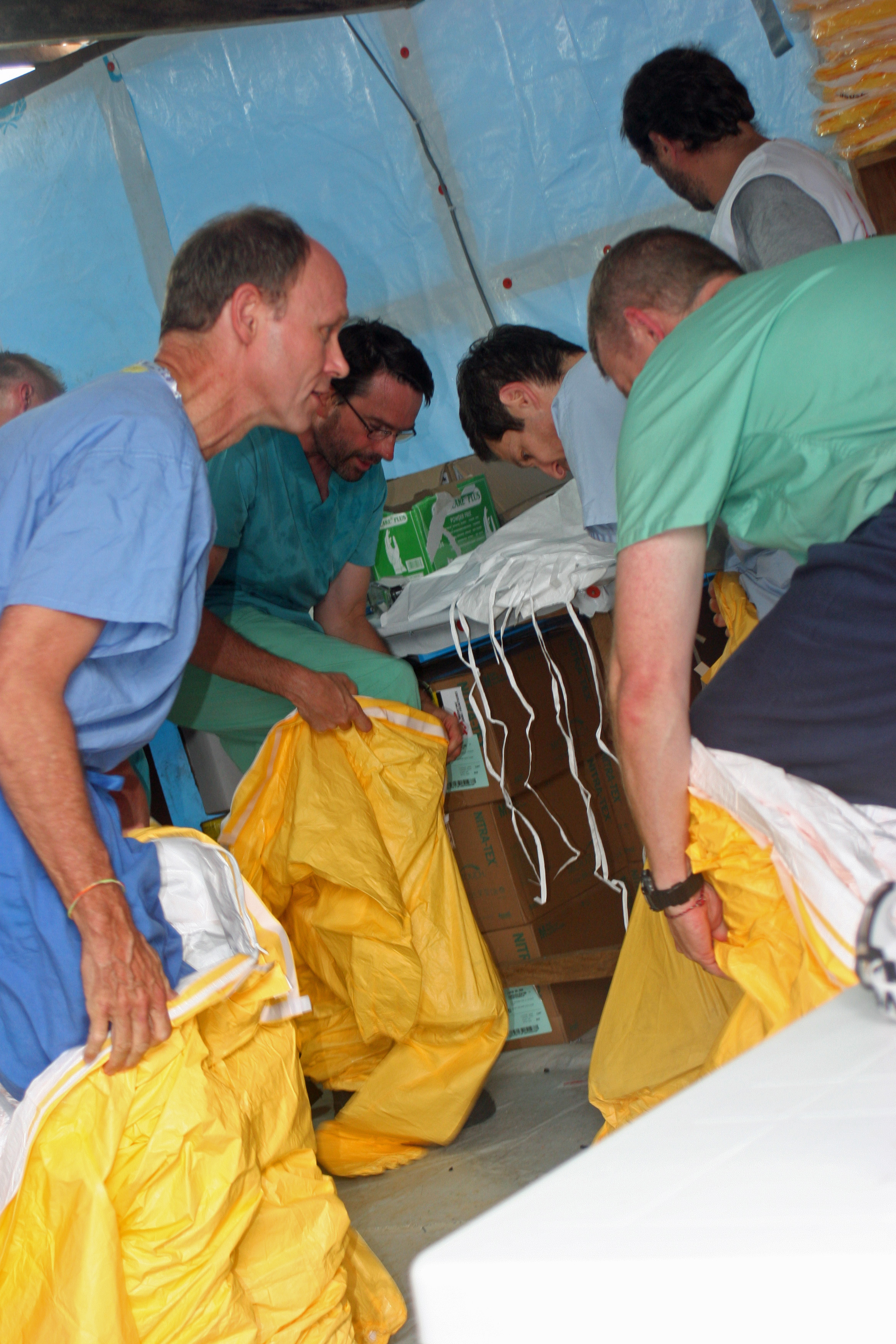 CDC and Médecins Sans Frontières/Doctors Without Borders (MSF) staff don PPE before entering the Ebola treatment unit (ETU), ELWA 3, operated by MSF. From right to left: Dr. Jordan Tappero; Dr. Armand Sprecher, MSF; Dr. Tom Frieden, Director, CDC; and Dr. Joel Montgomery, CDC. Photographer: Athalia Christie For more information on Ebola and what CDC is doing, please visit